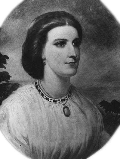 A drawing of Isabel Burton, from 1861.